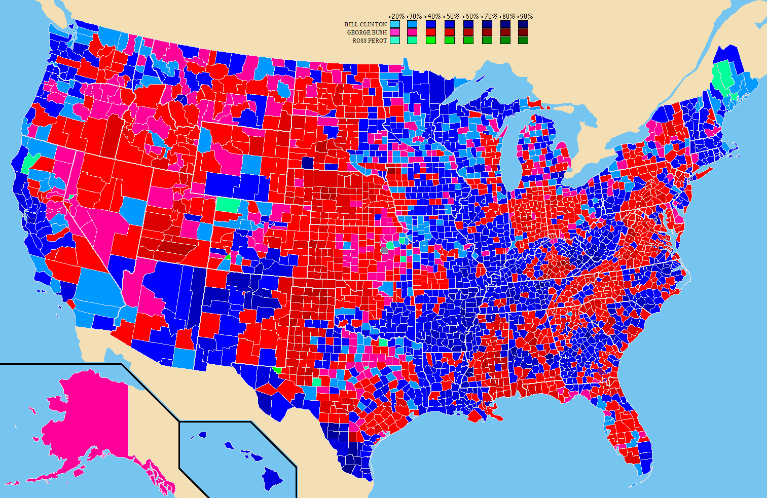 Map showing the results by county of the 1992 United States presidential election specifically identifying the percentage received by the winning candidate in each county.